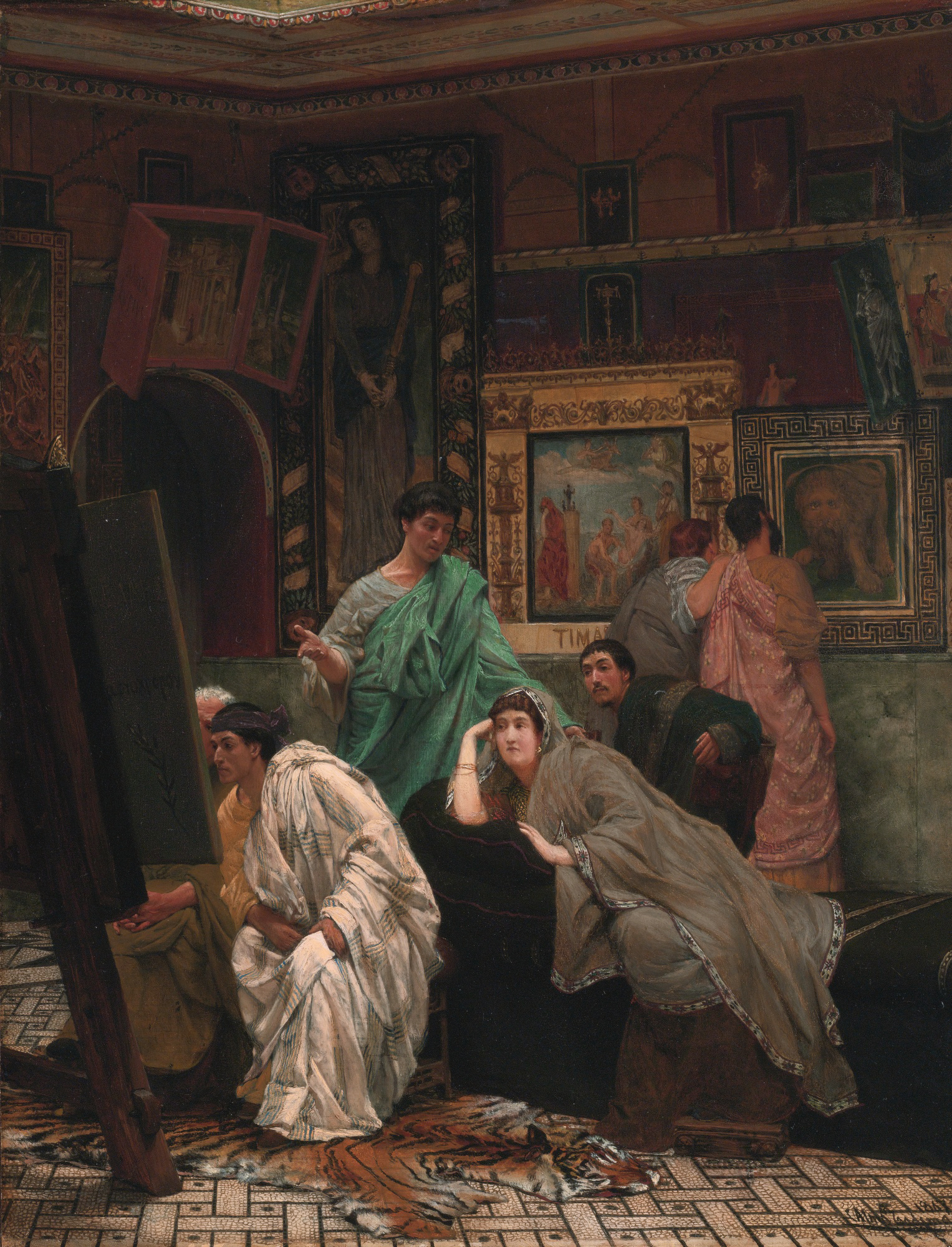 Lawrence Alma-Tadema's art